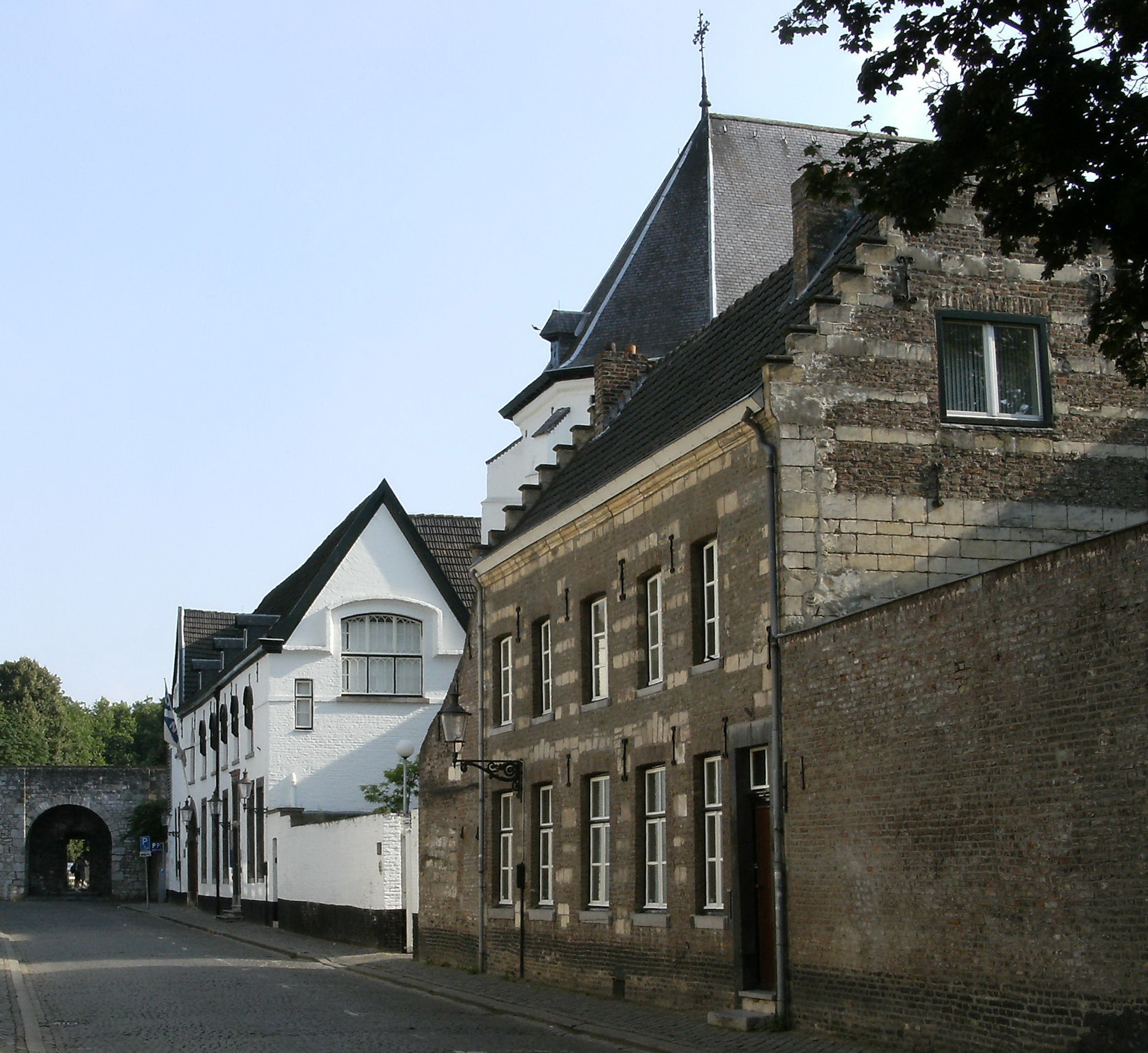 Street in Maastricht.